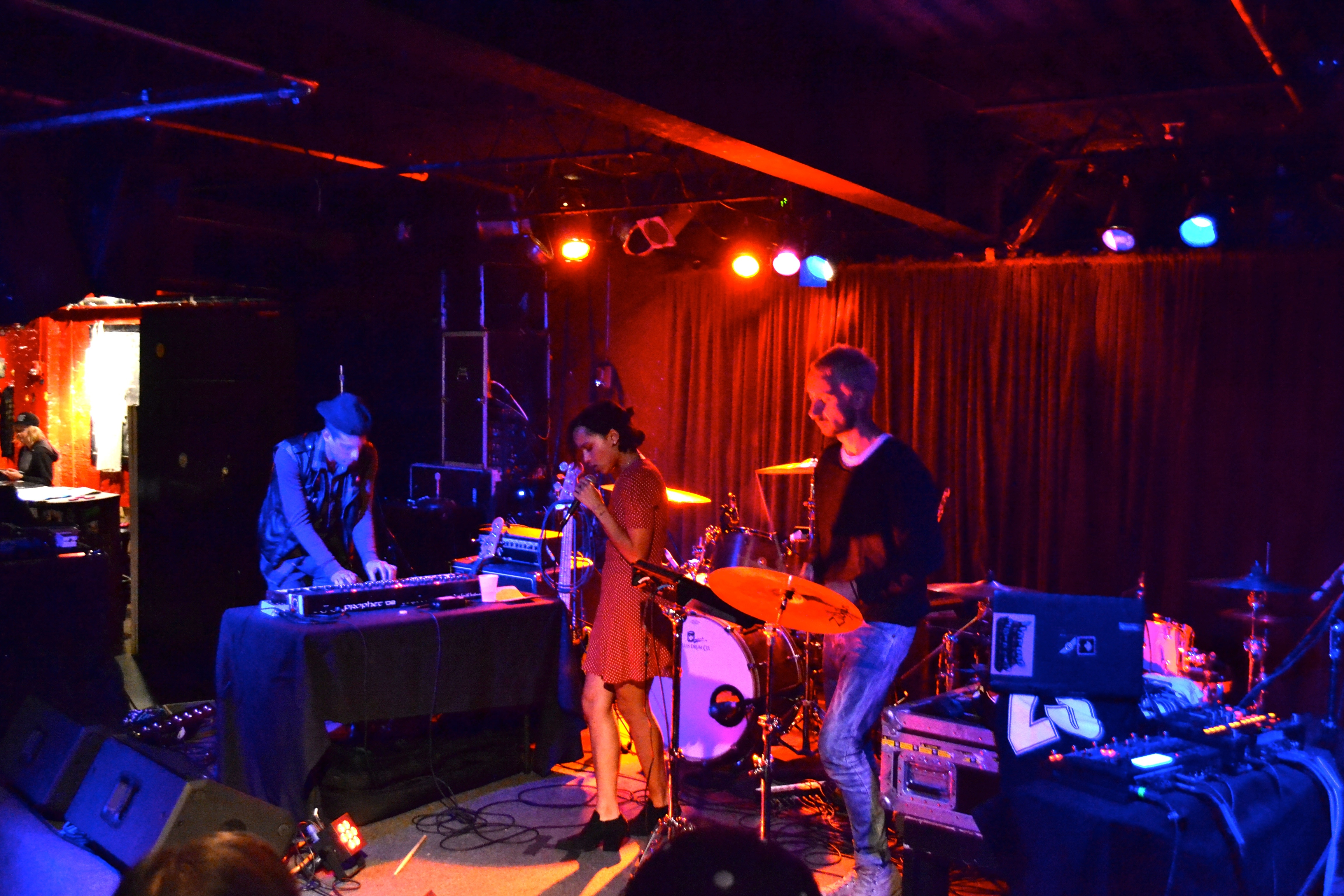 Lolawolf opening for Poliça at the Grog Shop in Cleveland Heights, OH